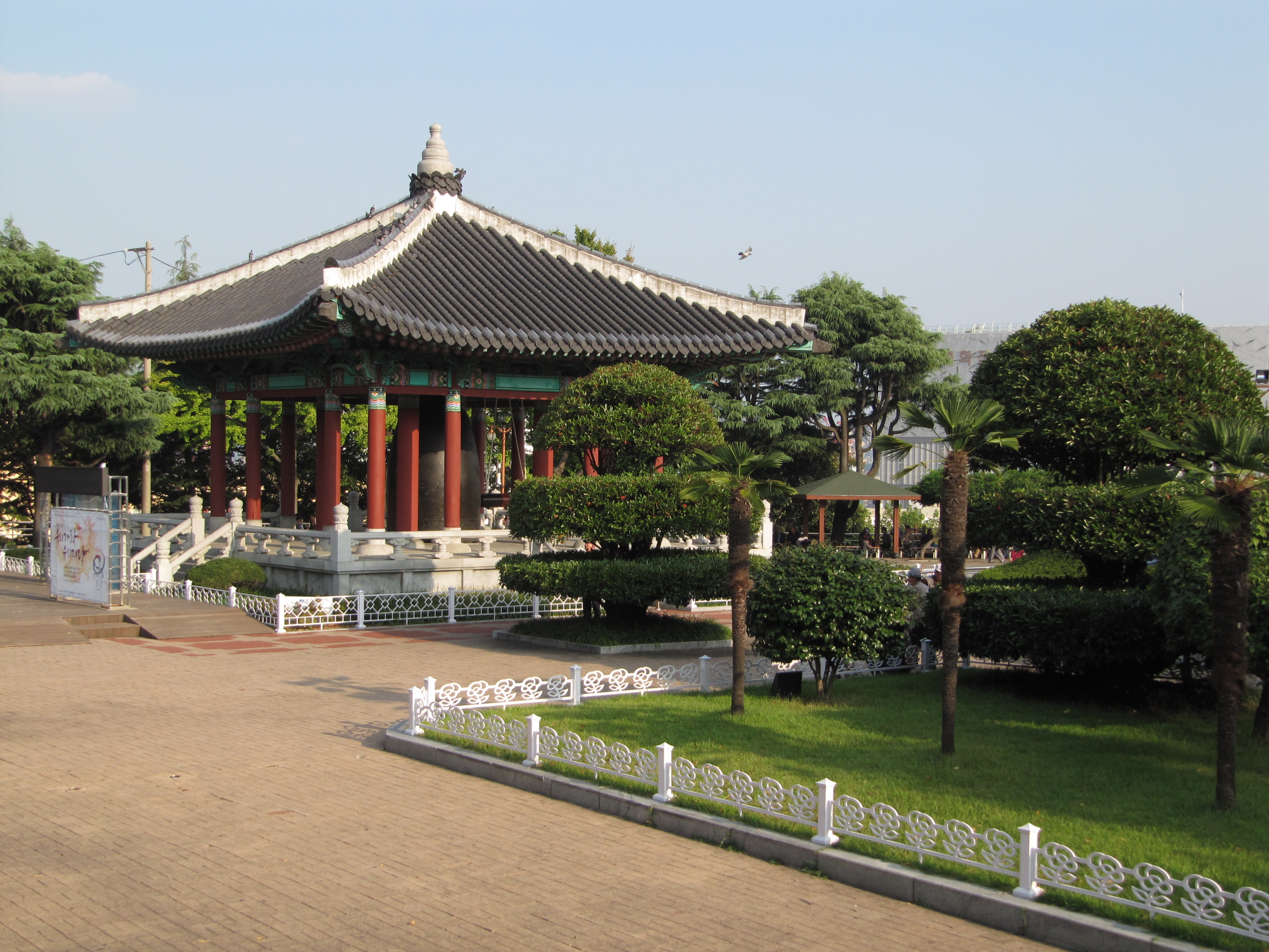 Busan tower, entry to stairs to park